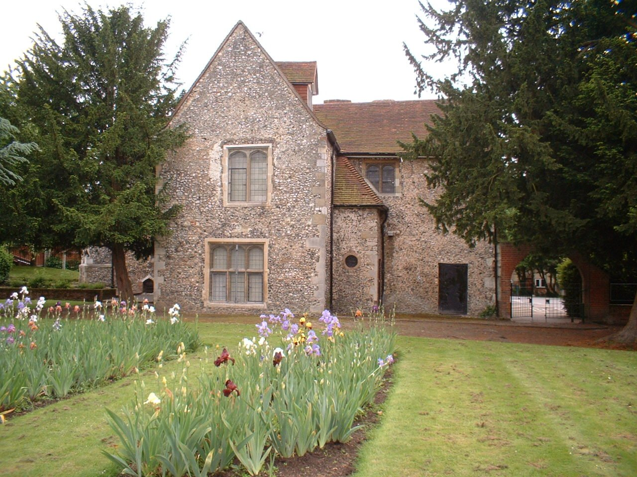 Taken 28/5/2006